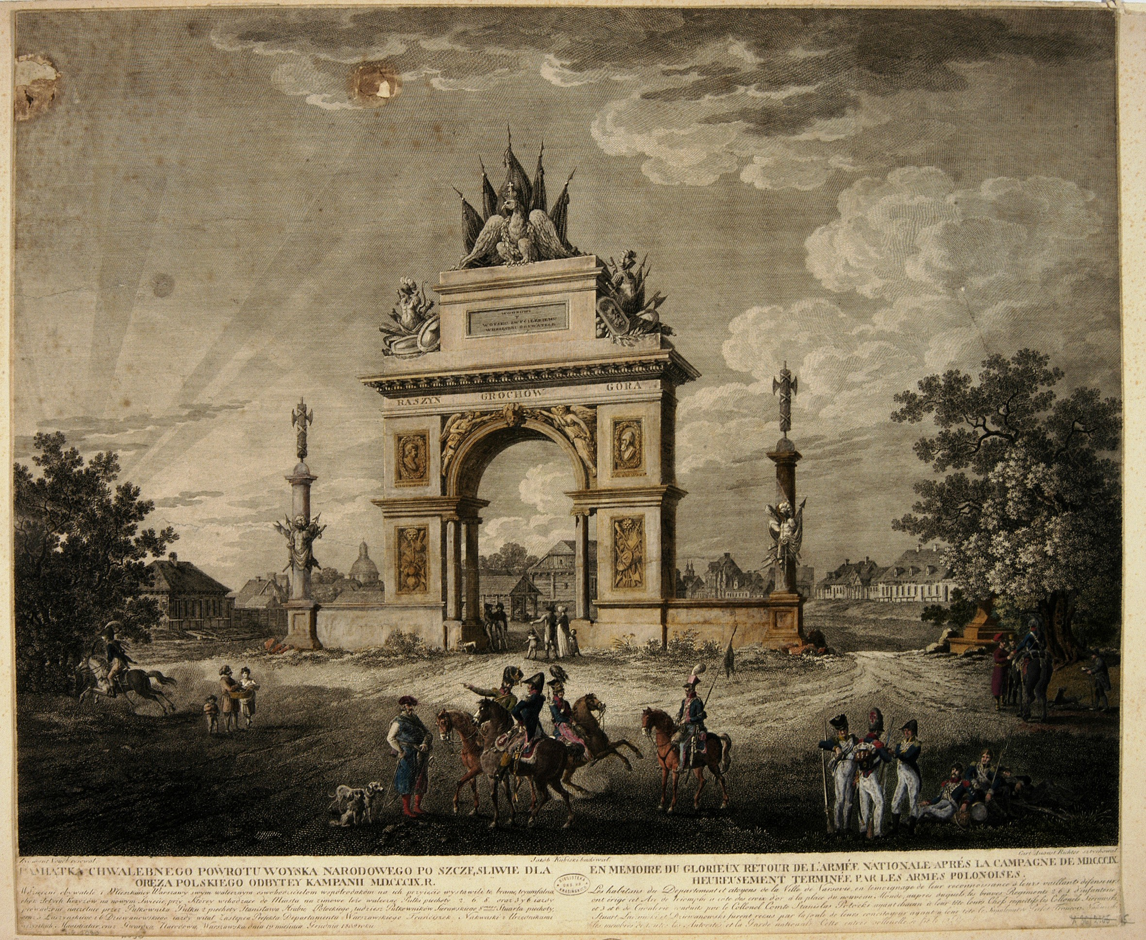 Triumphal gate designed by Jakub Kubicki erected in 1809 in the Three Crosses Square in Warsaw